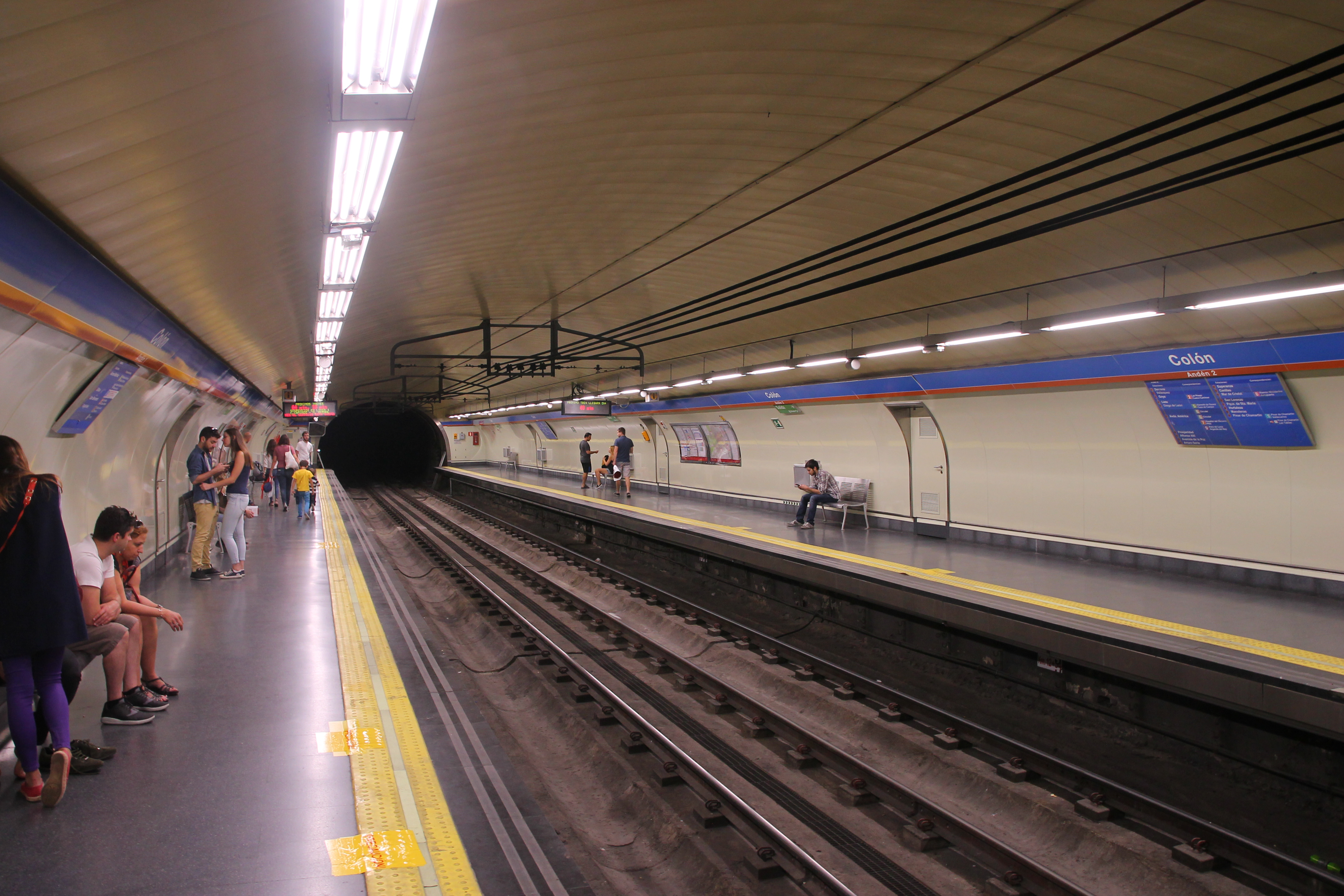 Estación de Colón